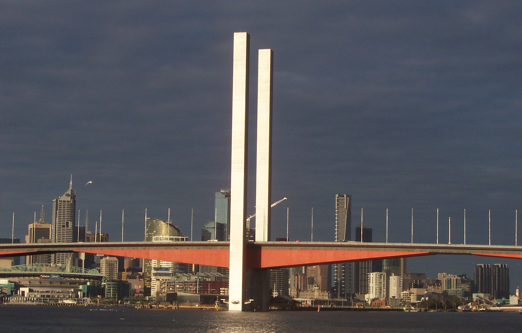 Bolte Bridge, Melbourne, Australia, looking back to the city